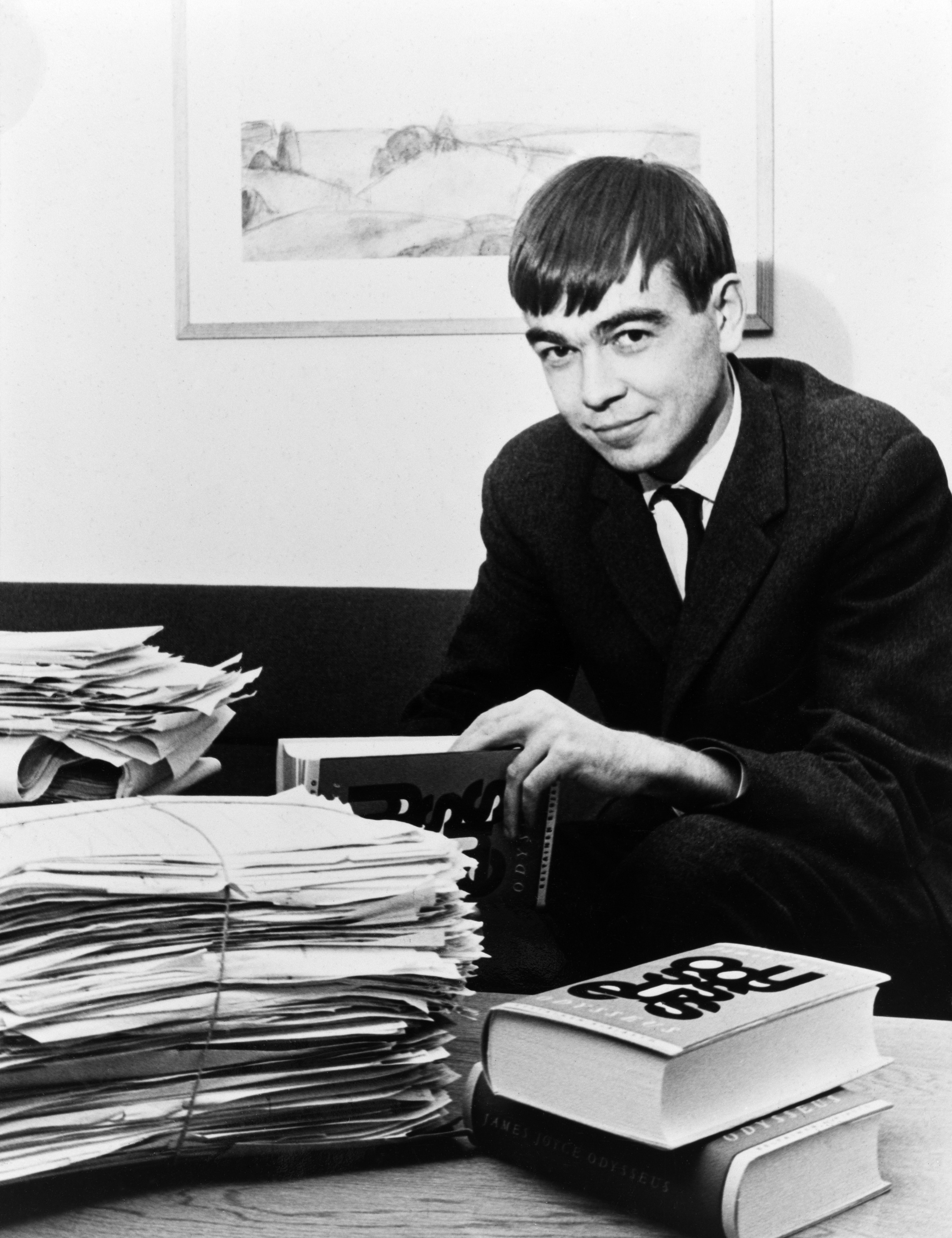 Photograph of the Finnish writer Pentti Saarikoski (1937–1983).